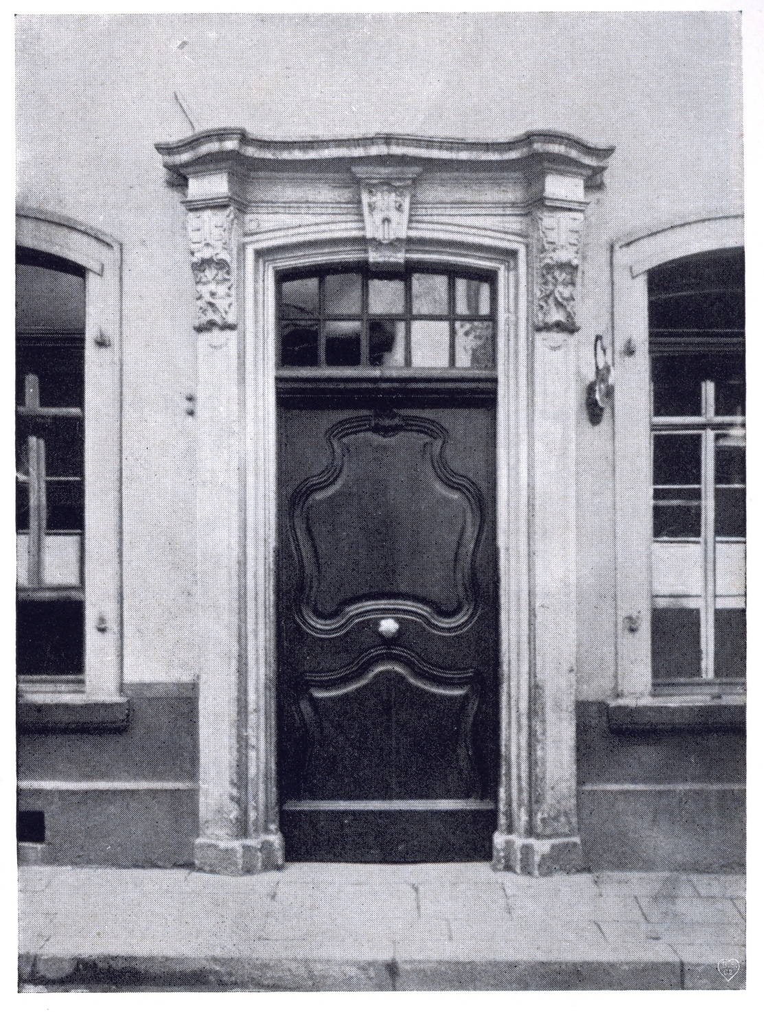 t